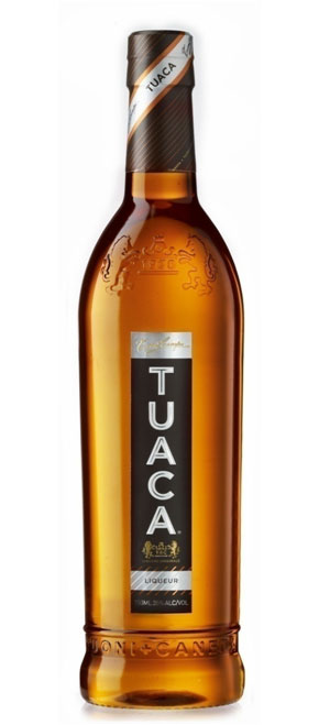 Current Tuaca bottle.